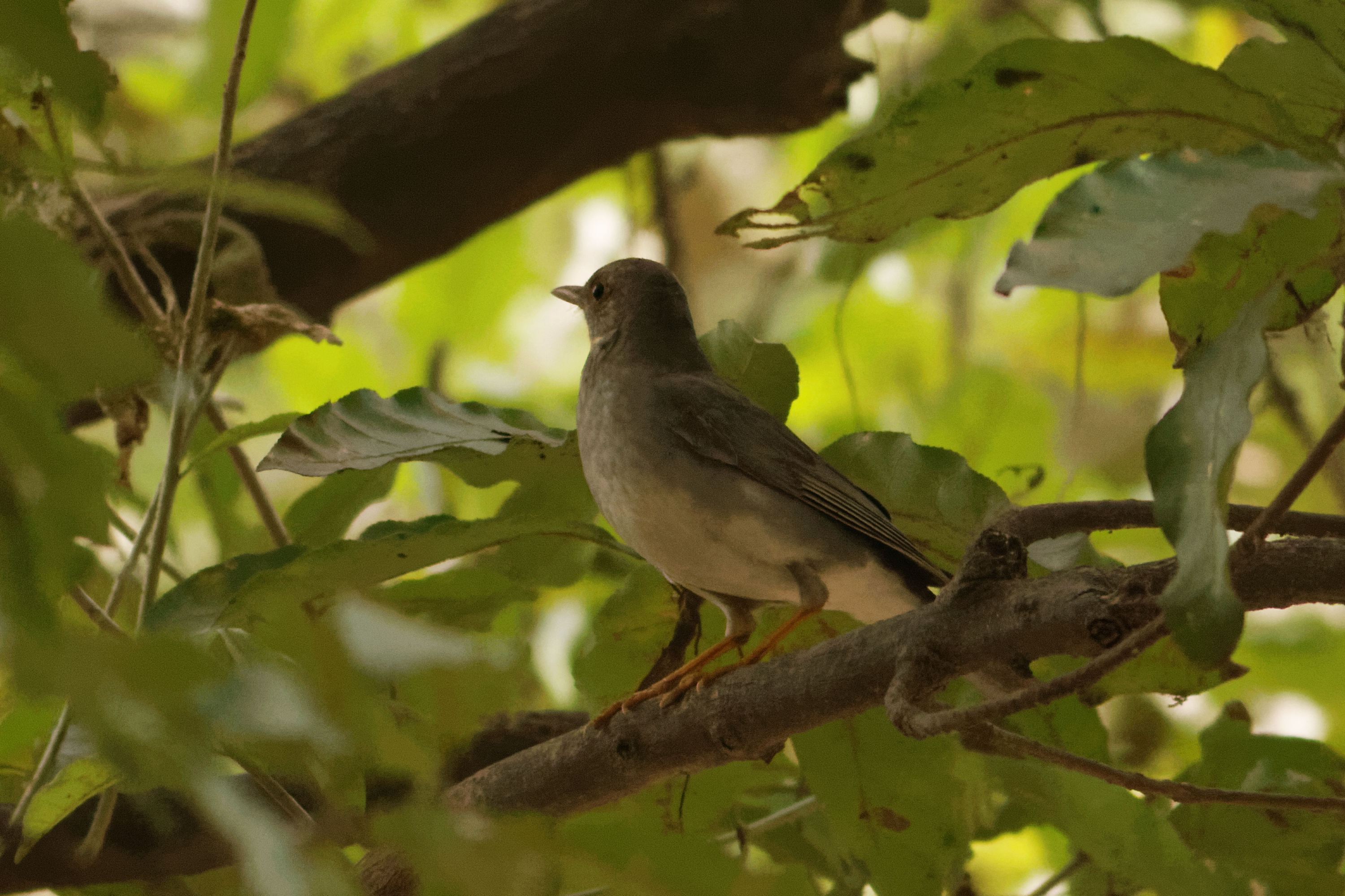 Tickell's Thrush Turdus unicolor male at Nawabganj Bird Sanctuary, Uttar Pradesh, India